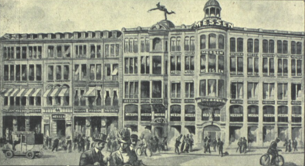 Messen in Købmagergade in Copenhagen, Denmark